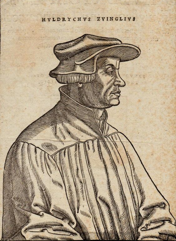 Woodcut by Hans Asper (ca. 1499 – 1571) of Swiss reformer Huldrych Zwingli (1484 – 1531).